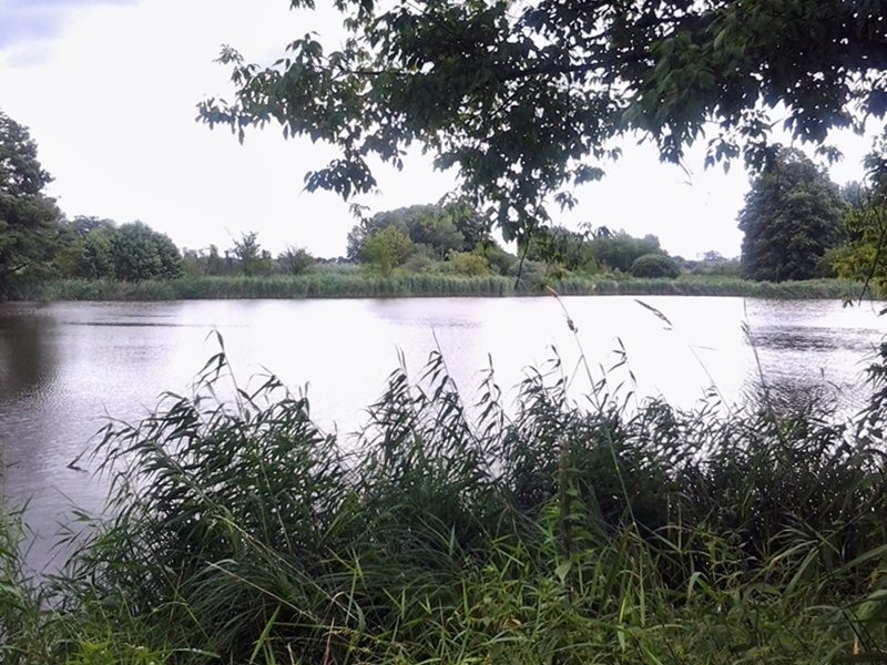 Schönerlinder ponds nature reserve